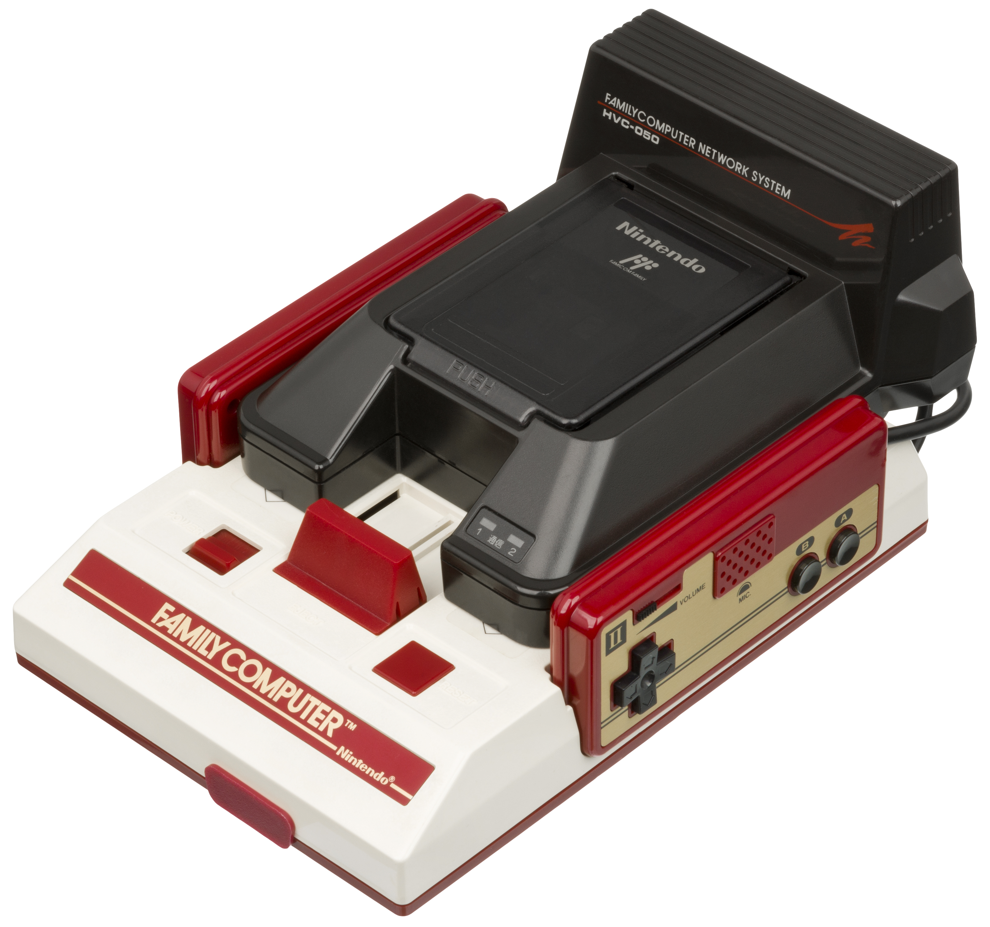 The Nintendo Famicom Network System, a proprietary dial-up modem add-on for the Japanese Nintendo Famicom video game console. This Japanese exclusive accessory was released in 1988 and allowed users limited online abilities like horse-race betting and stock trading.